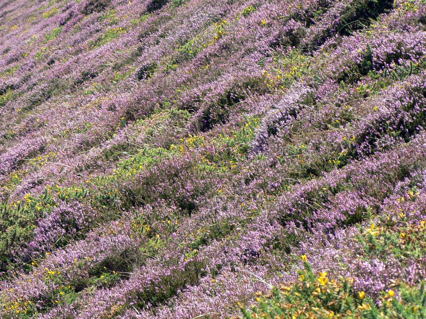 Heath in Cornish Moorland